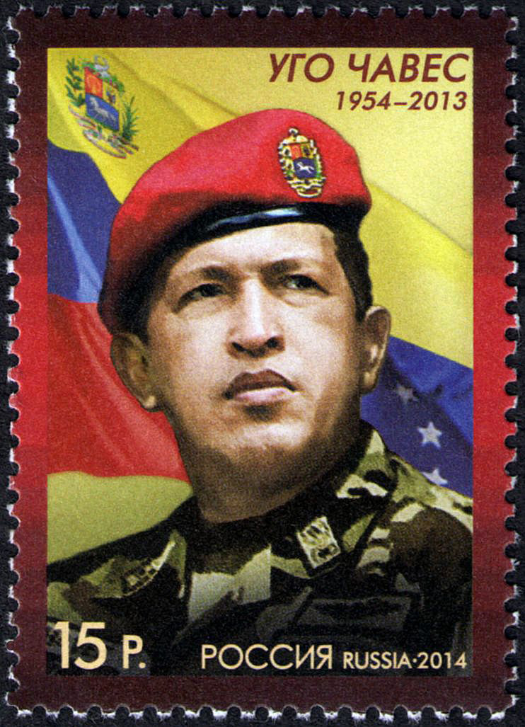 Statesmen of Latin America. Hugo Rafael Chávez Frías (1954—2013), the President of Venezuela from 1999 until 2013. The portrait of Hugo Chávez against the flying state flag of Venezuela. The stamp of Russia, 15.00 Rubles, 28 July 2014, PTC Marka Catalogue No 1845. Coated paper. Offset printing. Perforation: comb 12×12½. Size of the stamp: 30×42 mm. Print run: 420,000.